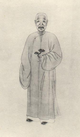 FENG Yingliu, politician and scholar of the Qing Dynasty.